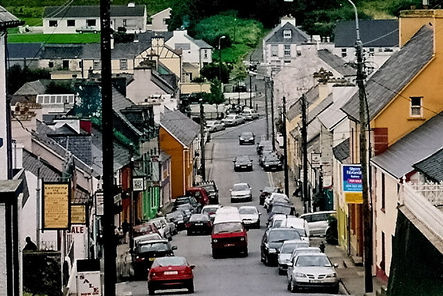 Ardara - SW view of Front Street from R261 intersection